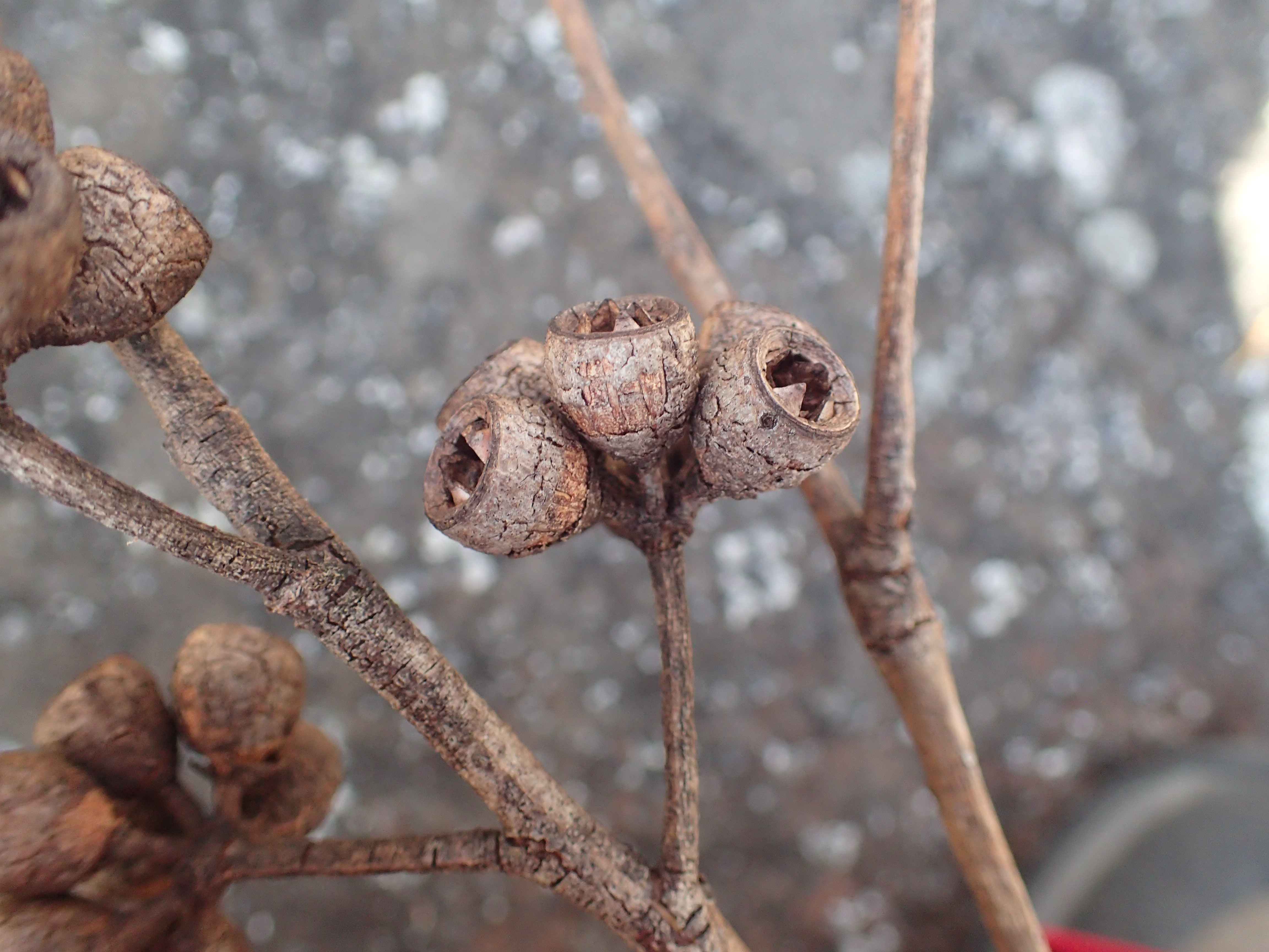 Fruit of Eucalyptus pyrocarpa at the Granits Lookout in the Washpool National Park